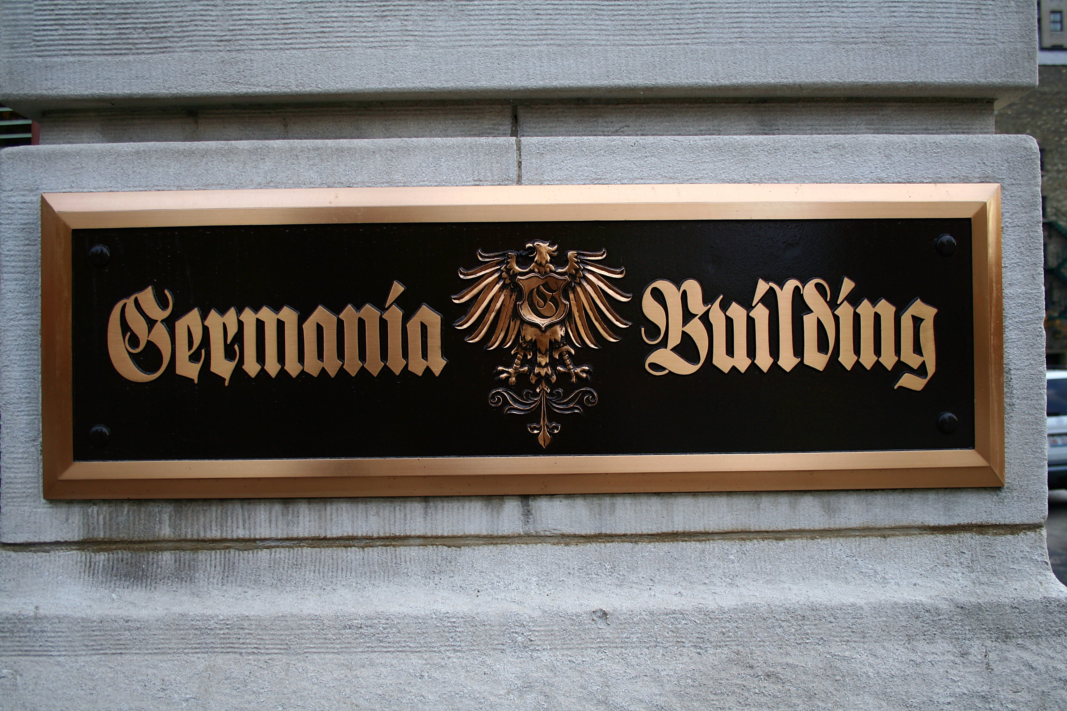 Photo of a plaque by the entrance of Milwaukee's Germania Building.